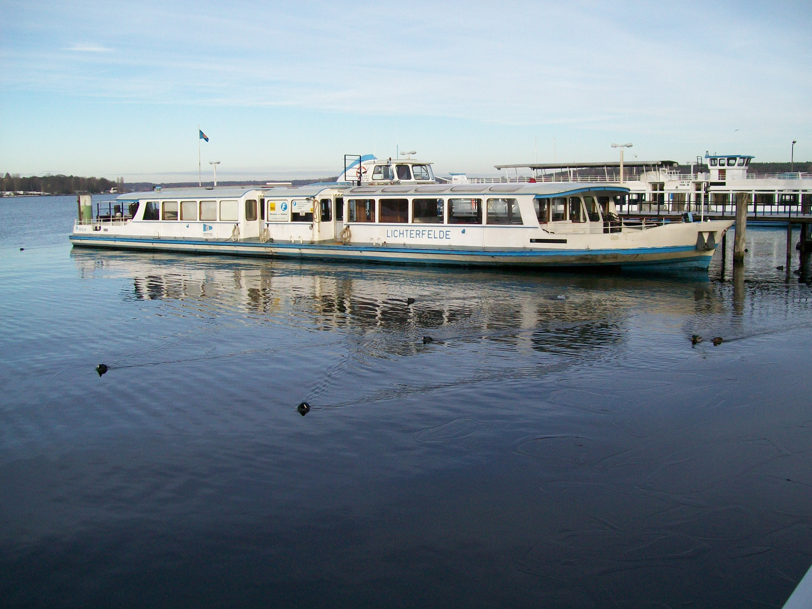 MS Lichterfelde, hull built 1896, as Lubeca, remodeled 1959/1960; Stern- & Kreisschiffahrt, Berlin; in use during summer as BVG-ferry F10 between Kladow and Wannsee